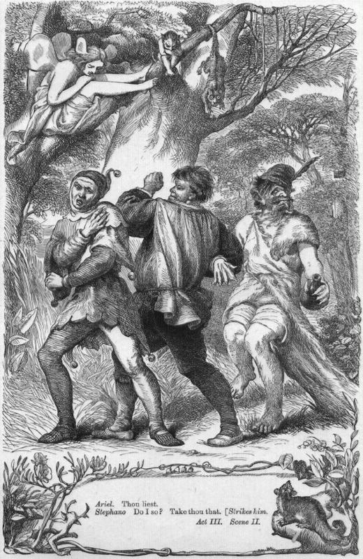 Ariel, Trinculo, Stephano, Caliban from The Tempest